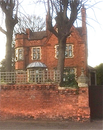 9 Lindum Terrace, Lincoln. 1898.